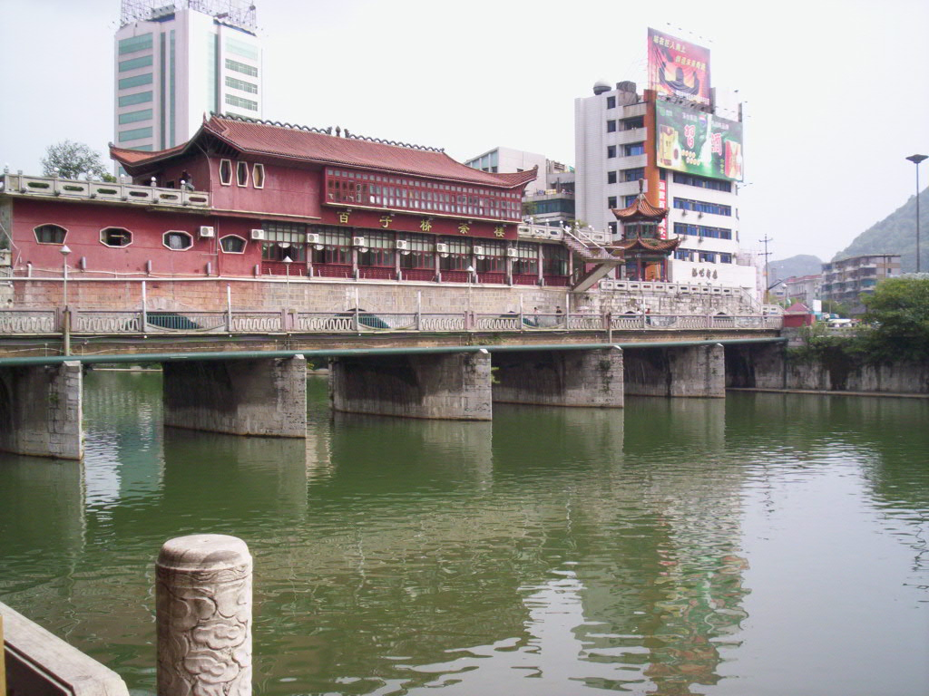 Baiziqiao (百子桥) bridge in Baiyun, Guizhou